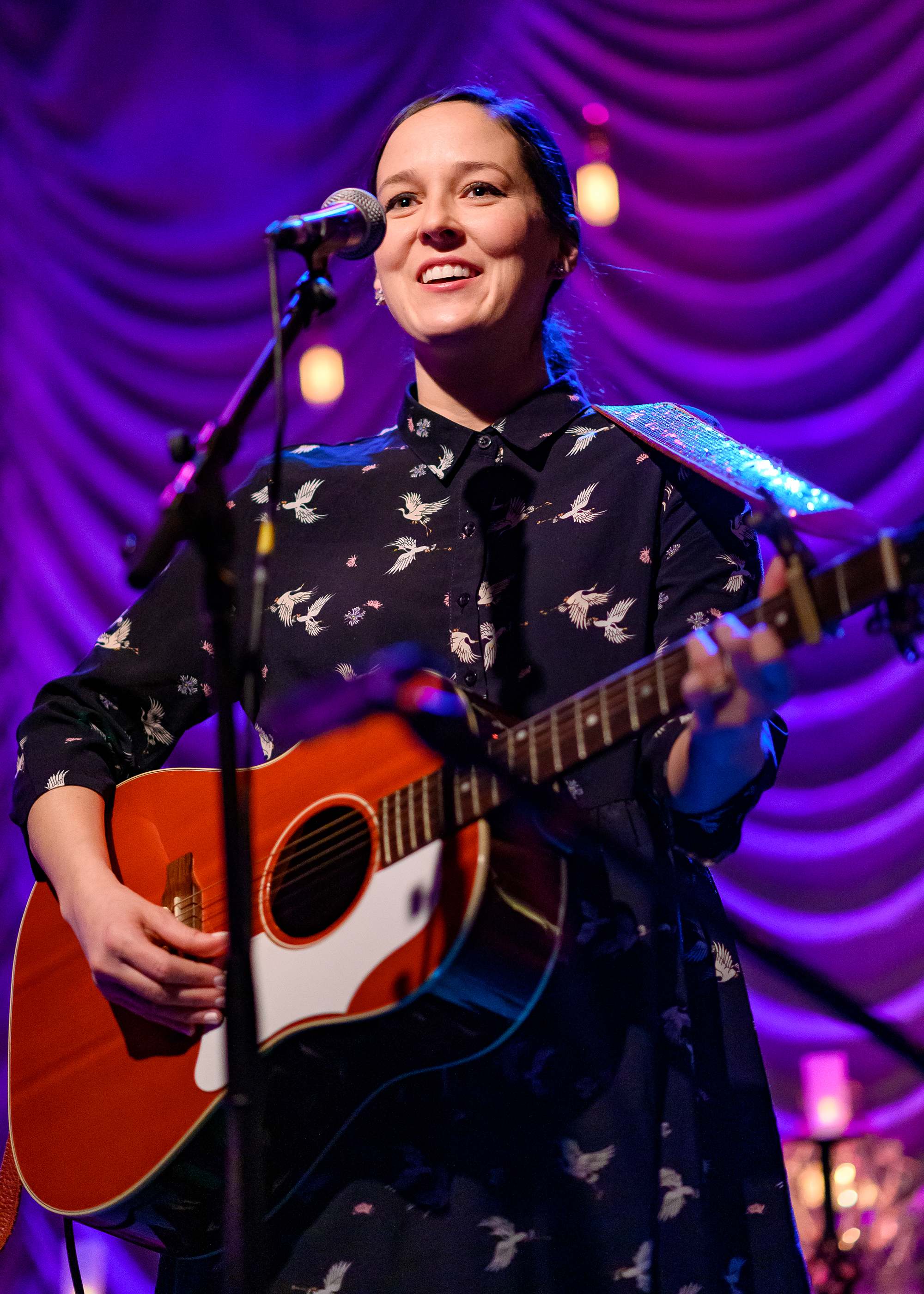 Meiko performing live at Saint Rocke in Hermosa Beach, Los Angeles, California, on Sunday, February 17, 2019.